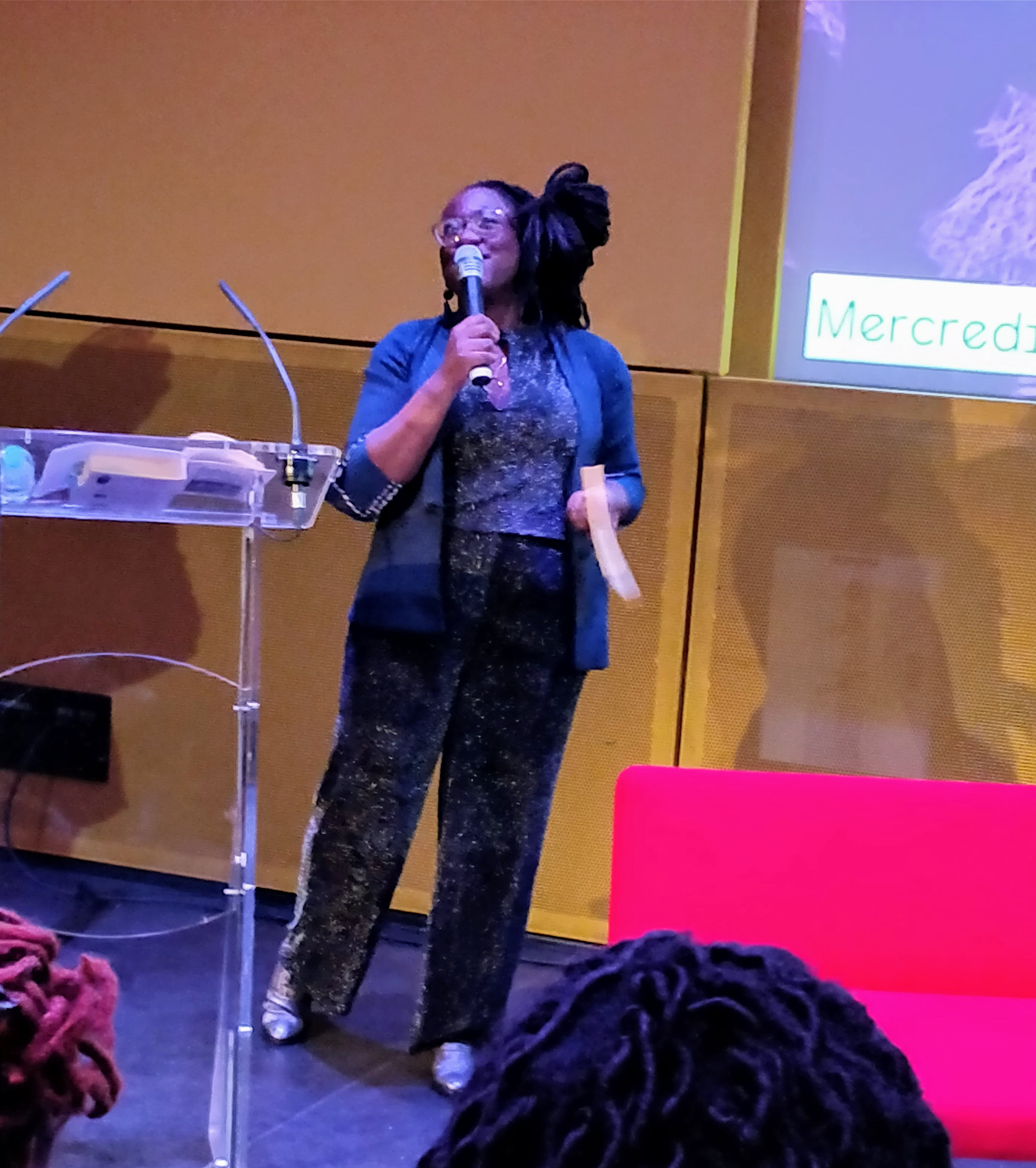 Mélissa Laveaux